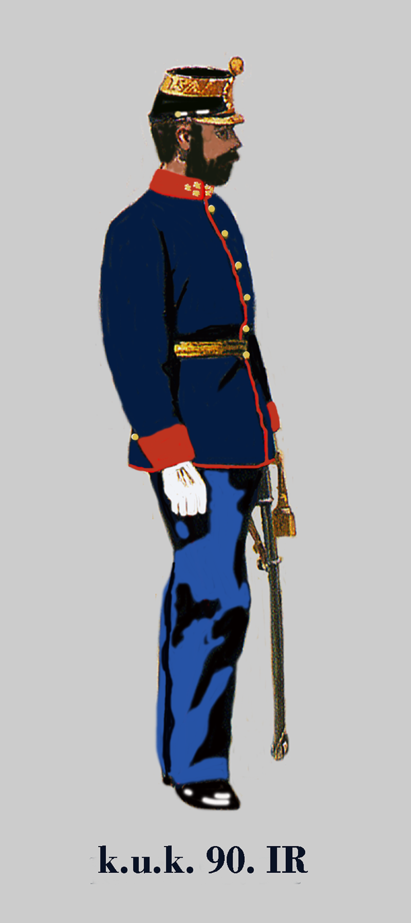 Captain of the Austria-Hungarian (k.u.k.). 90th german Infantry Regiment in Parade dress. 1914